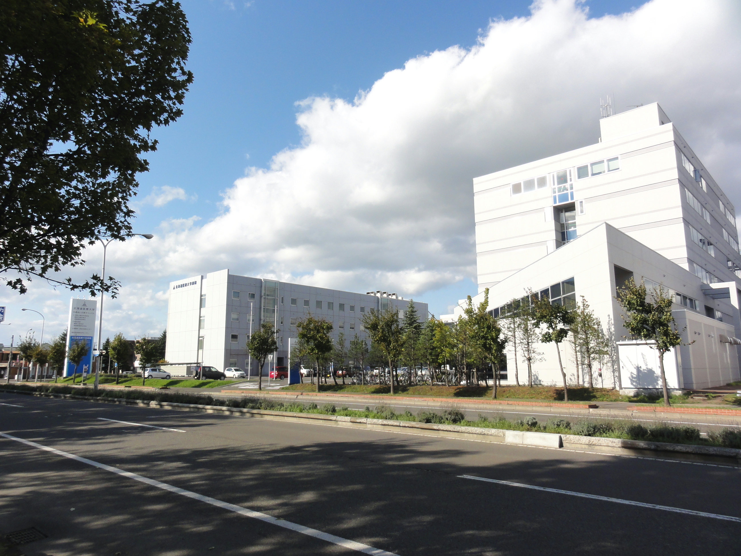 Health Sciences University of Hokkaido, Ainosato Campus (Kita-ku, Sapporo, Hokkaido)